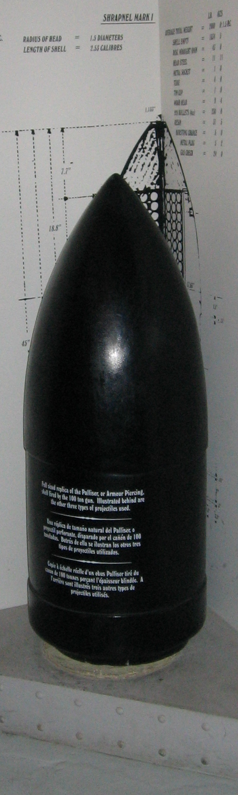 Replica of Palliser projectile for 17.72 inch 100 Ton Gun "Rockbuster" (built 1883) in Gibraltar